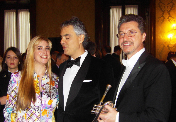 Francoise de Clossey, Mauro Maur and Andrea Bocelli